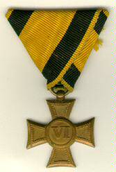 Military Long Service Cross Soldier Grade